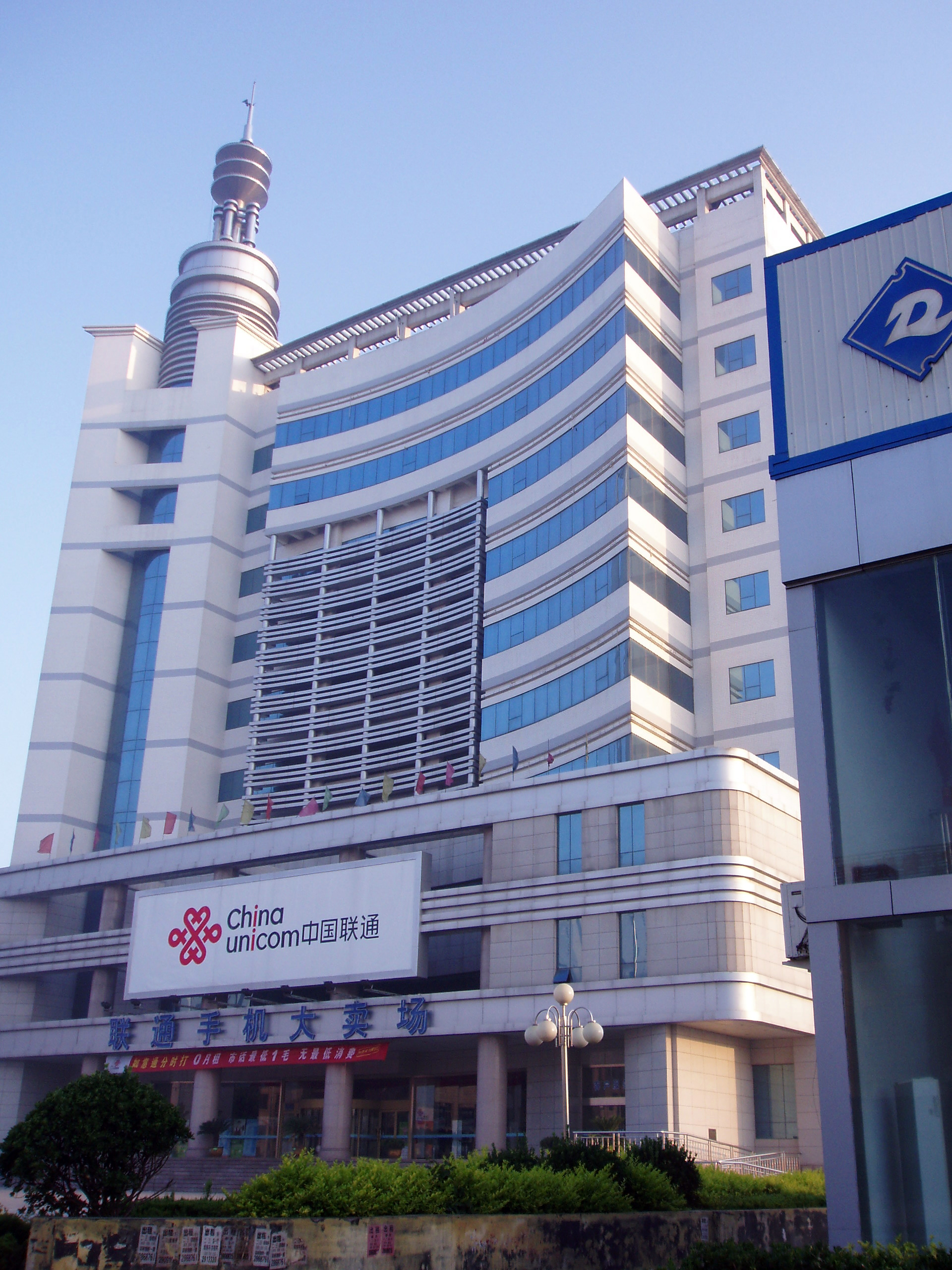 Dezhou, Shandong, China